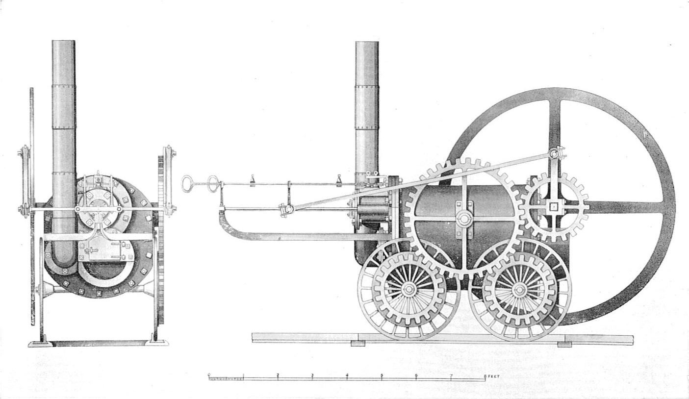 Trevithick's Coalbrookdale locomotive, 1803